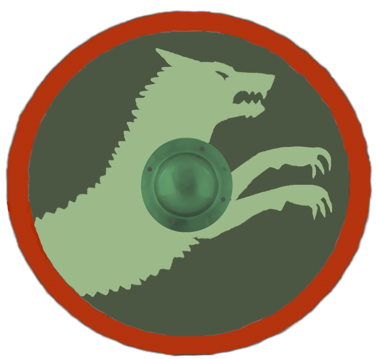 Shield pattern o.t. Felices seniores is listed as one of auxilia palatina units in the Magister Peditum's infantry roster; it assigned to the Comes Hispenias., Notitia Dignitatum, 5th century (Bodleian Manuscript).